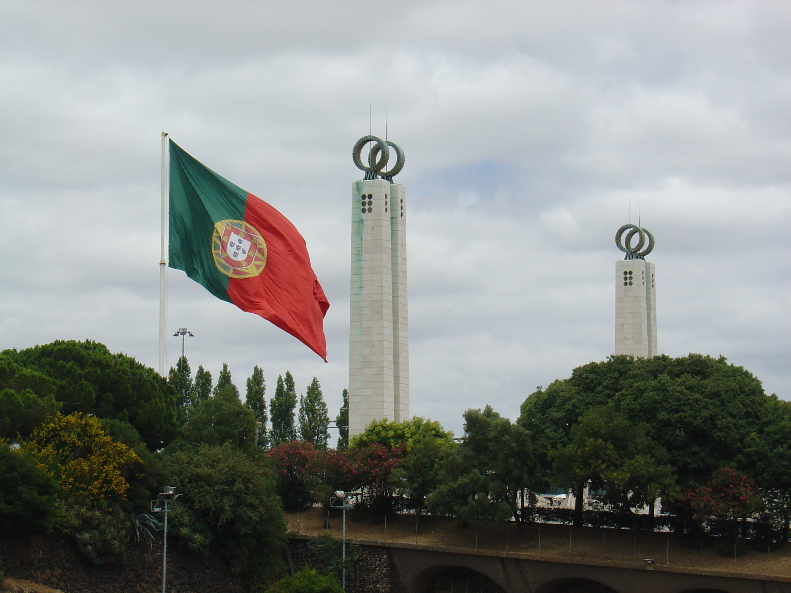 Monument to the Revolution of 25 April, Lisbon, Portugal